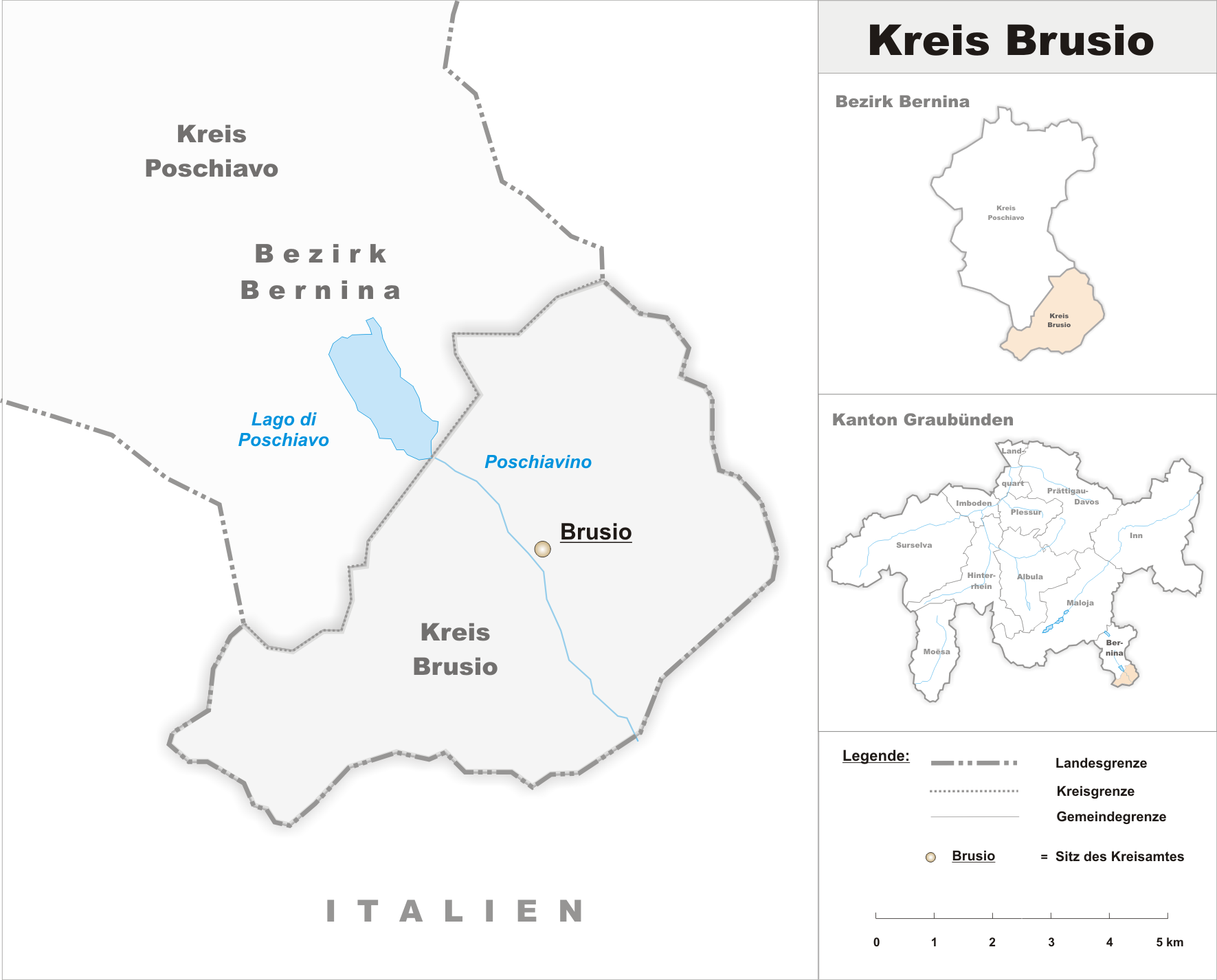 Municipalities in the circle of Brusio